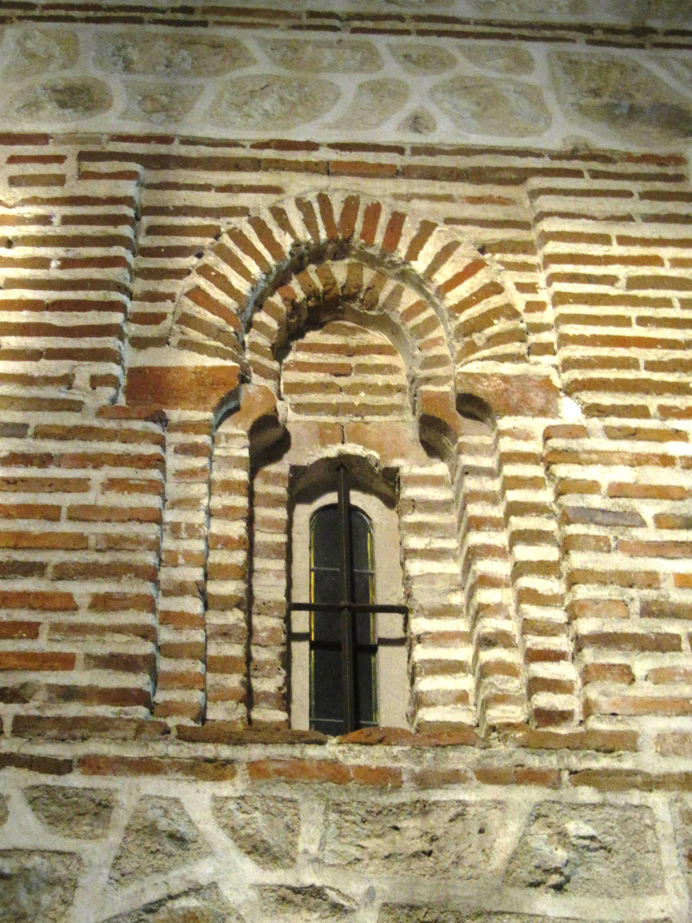 Mudéjar window of the Cathedral of Getafe (Spain).